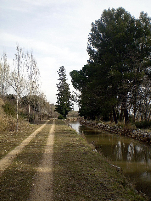 canal del duero en la cisterniga